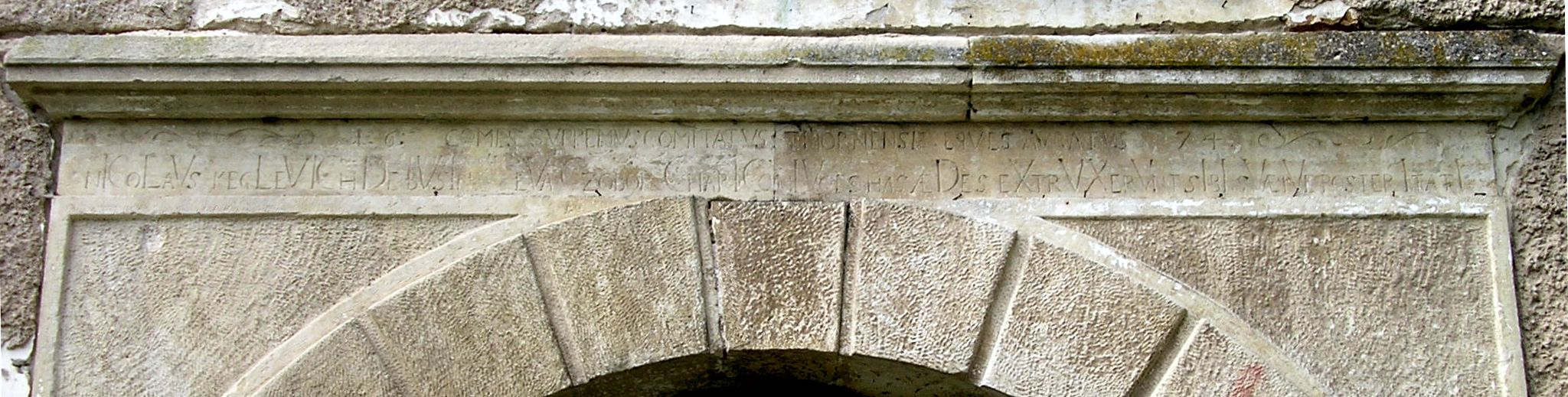 Opeka Manor, Vinica municipality, Varaždin county, Croatia